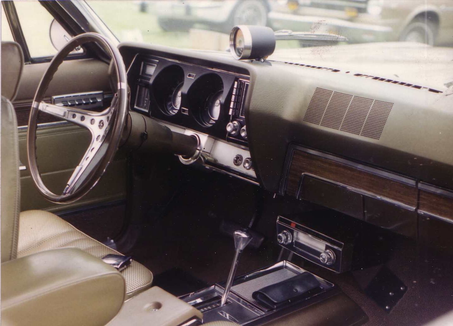 1967 AMC Marlin - a full-sized "personal luxury" two-door fastback made by American Motors Corporation. Front passenger compartment in this 1967 Marlin. This car has automatic transmission mounted on center console, power windows, as well as original AMC factory options that include an 8-track tape stereo player (mounted between the ash tray on the dash and console), as well as a dash mounted tachometer.